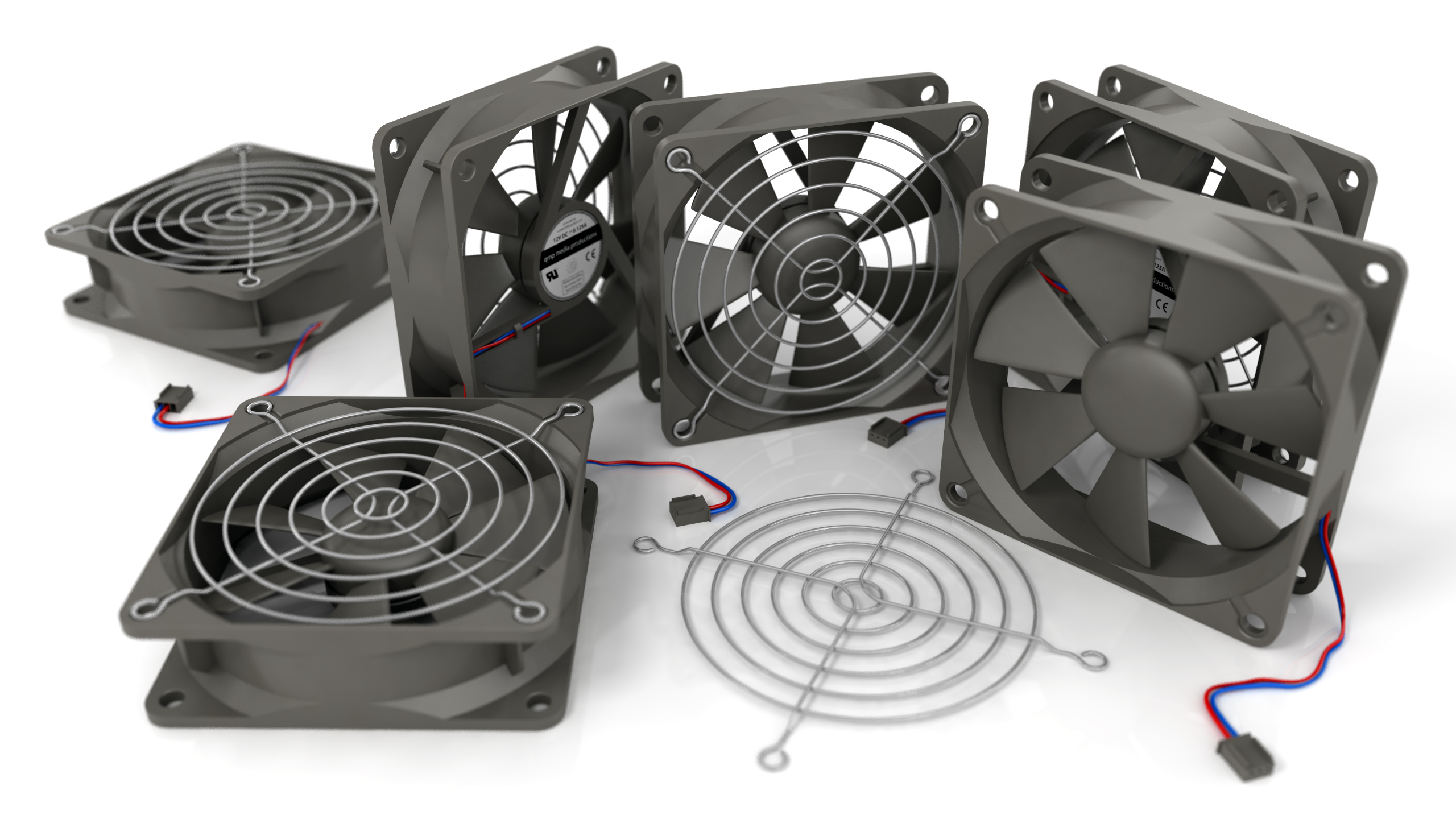 A set of 6 industry standard 80mm fans, most commonly used in personal computers.